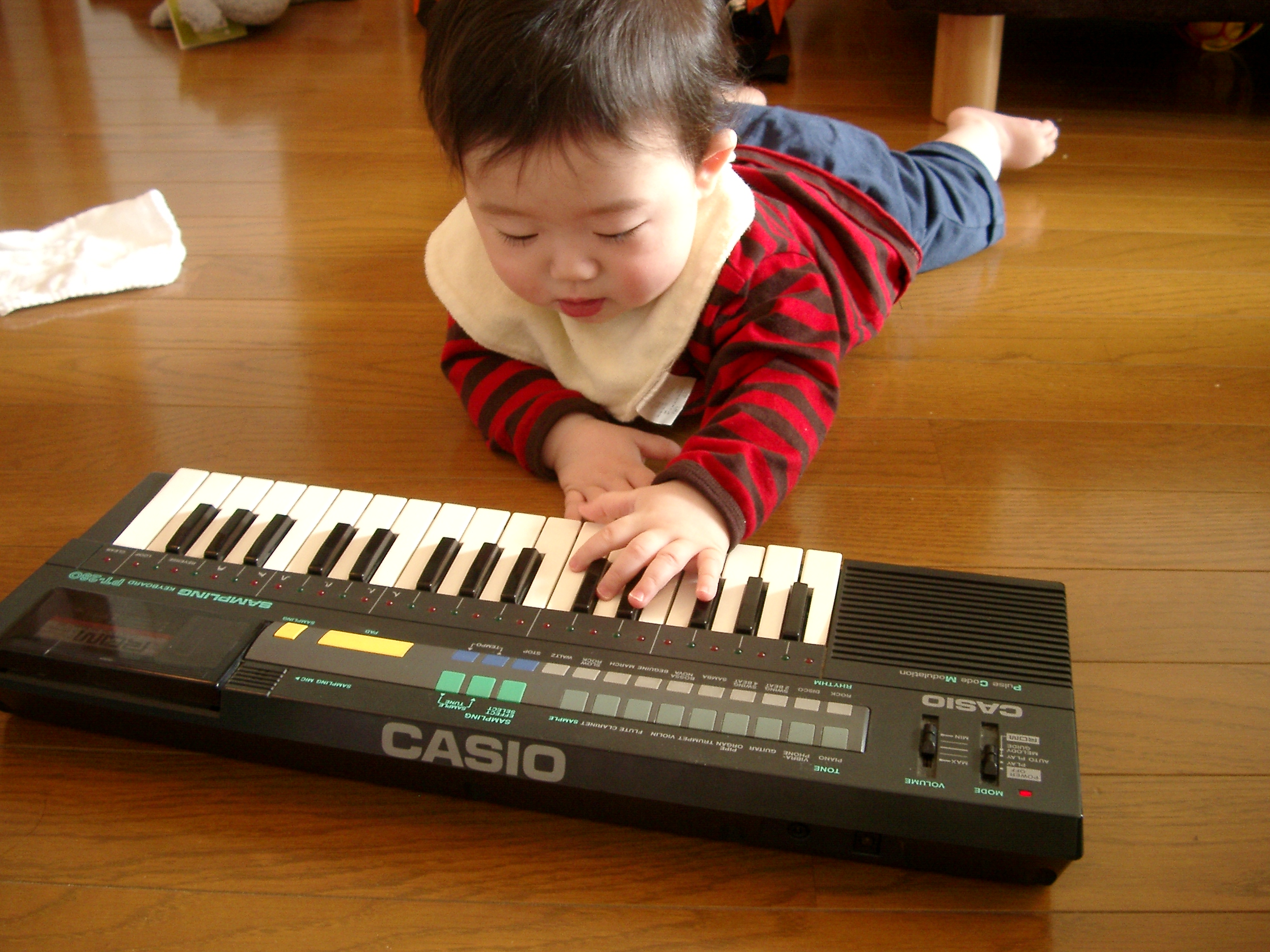 Casiotone taken over from parent to baby